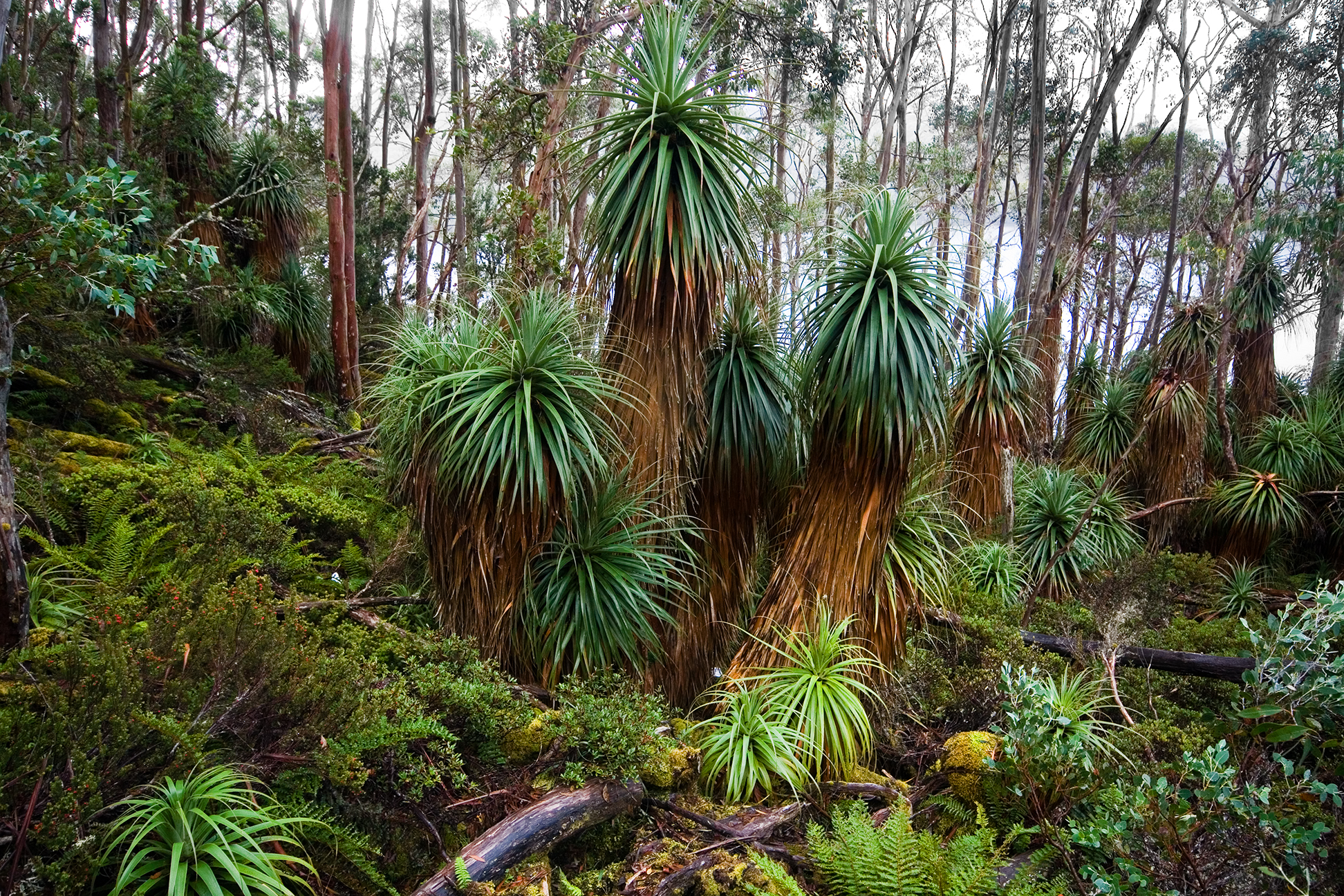 Pandani (Richea pandanifolia) near Lake Dobson, Mt Field National Park, Tasmania, Australia Camera data Camera Canon EOS 400D Lens Sigma 10-20mm F4-5.6 EX DC HSM Filter Circular Polarizer Focal length 10 mm Aperture f/8 Exposure time 1/8 s Sensivity ISO 400